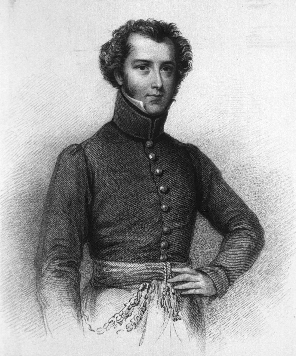 Alexander Gordon Laing (1794-1826), Scottish explorer, first European to visit Timbuktu